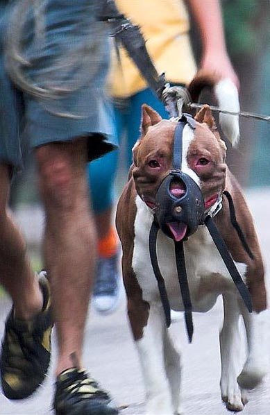 An American Pit Bull Terrier muzzled.